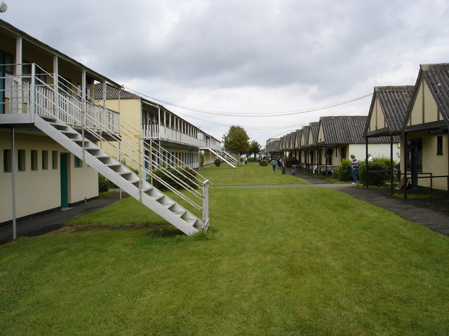 Mosney - former Butlin's Holiday Camp: The first Butlin's camp to be built outside of mainland Britain, the Mosney site was opened in 1948. Occupying some 200 acres of a former country estate, the camp was located on the east coast of Ireland, about 25 miles north of Dublin and adjacent to the main railway line to Belfast. Although occupying a large site, the area covered by the buildings was relatively small when compared to its British counterparts. Upon opening, The Catholic Standard newspaper stated that: "Holiday camps are an English idea and are alien and undesirable in an Irish Catholic country . . . outside influences are bad and dangerous." Billy Butlin built a Catholic Church to placate the hierarchy.